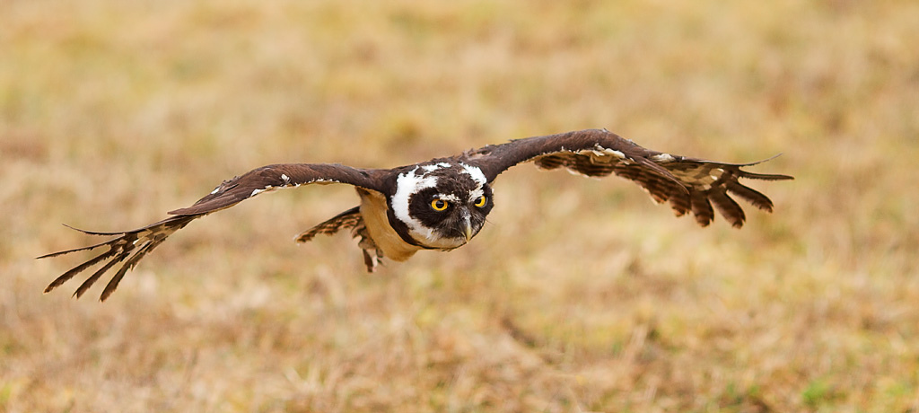 spectacled owl The Spectacled Owl, Pulsatrix perspicillata, is a large tropical owl. It is a resident breeder from southern Mexico and Trinidad, through Central America, south to southern Brazil, Paraguay and northwestern Argentina. The Woodlands Zoo in Seattle notes that "Due to its elusive behavior and dense forest habitat, little is known about this species. Spectacled owls are thought to be fairly common where their tropical forest habitat remains. But as tropical forests continue to disappear, the spectacled owl will be at greater risk of endangerment. Although spectacled owls seem to be somewhat tolerant of deforestation, and can be found in drier woods and cultivated areas, they do need wooded areas for successful nesting... Many raptor species are in danger. Human-caused changes in land use are escalating, and this affects the habitats and migratory corridors required by some raptors for survival. Vast forests are removed for timber and other paper products, and industrial emissions pollute water and air resources. Critical shoreline and riparian zone habitats are rapidly converted by expanding human communities and agricultural needs. Shooting and trapping are also lowering raptor numbers. It’s only a matter of time until more raptor species may face extinction, unless we take measures to protect their habitats."